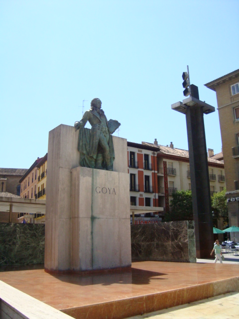 Goya's monument in Saragossa